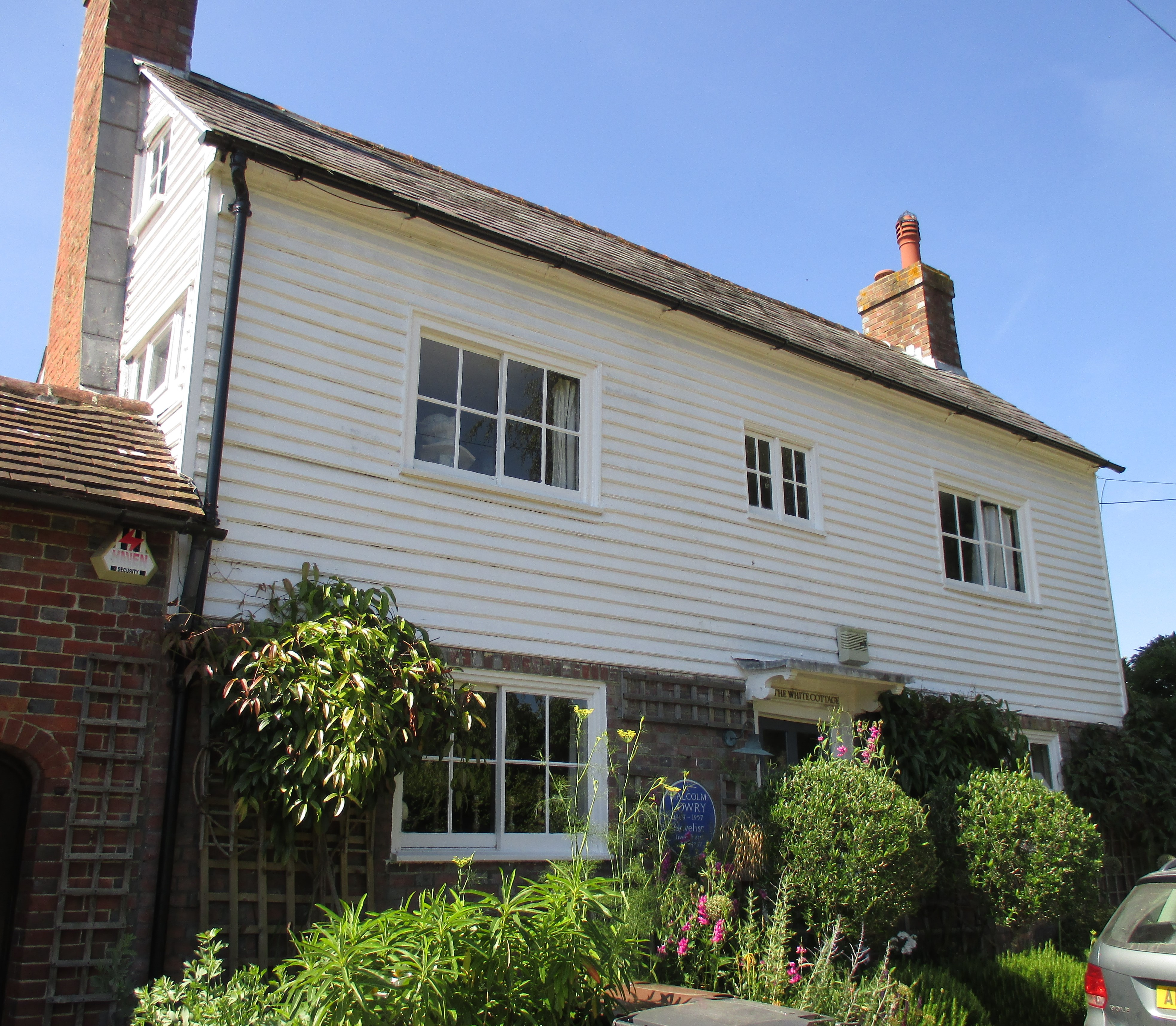 The White Cottage, Ripe, East Sussex, last home of the novelist Malcolm Lowry.